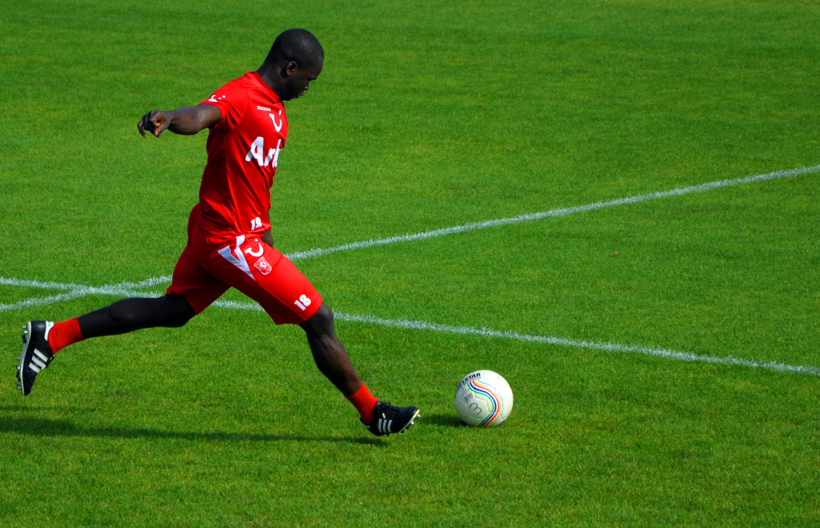 Cheik Ismael Tiote Fc Twente